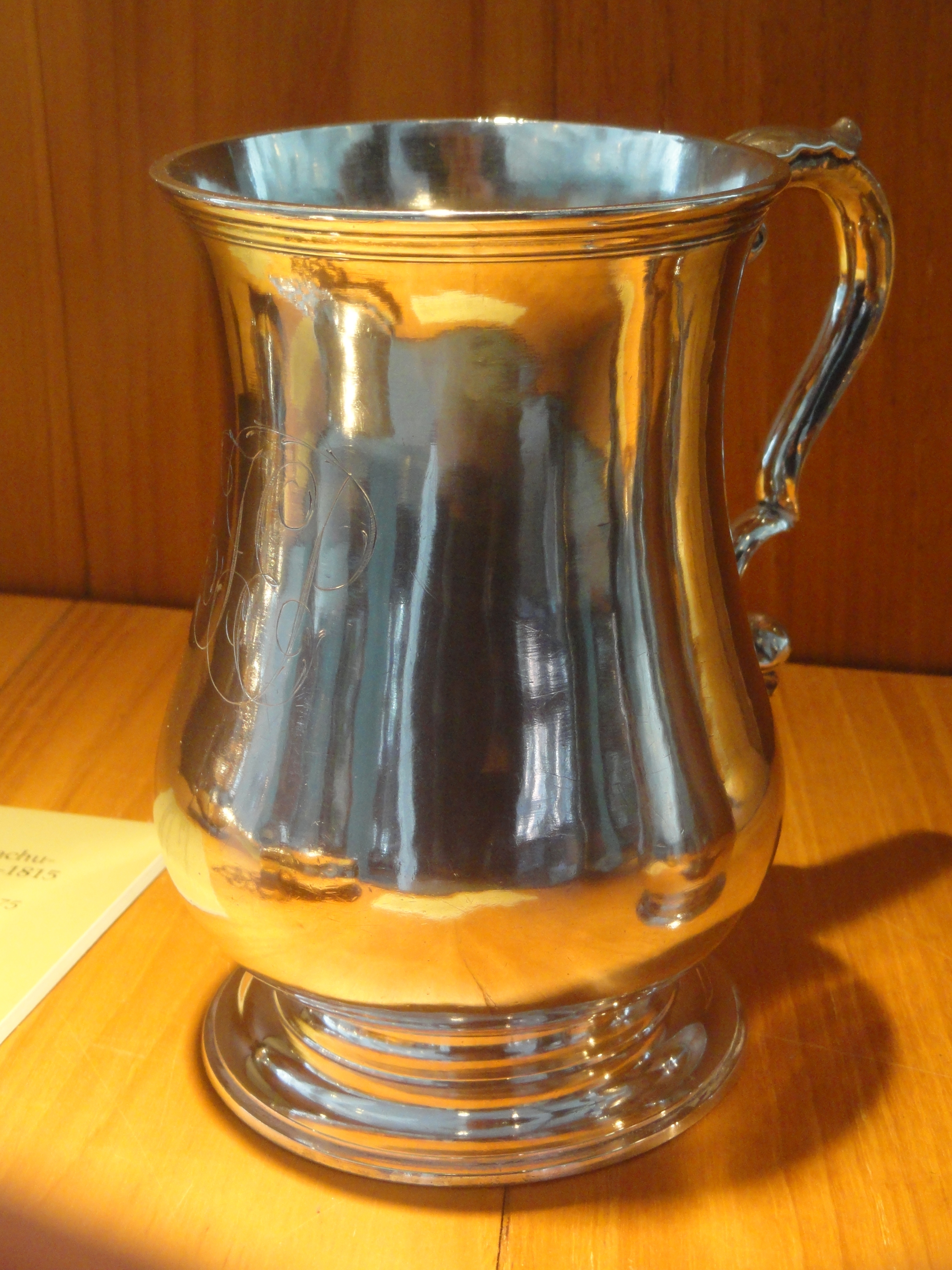 Cann, Samuel Bartlett and Joseph Loring, Boston area, c. 1785, silver - Hood Museum of Art, Dartmouth College, Hanover, New Hampshire, USA. This work is in the public domain because the artist died more than 70 years ago.